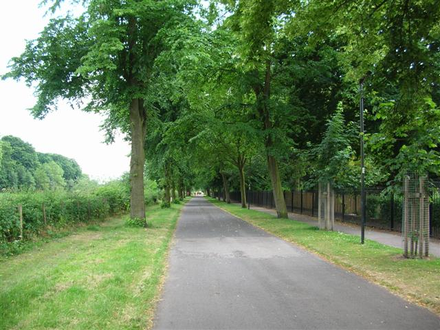 Cycle route down to Millennium bridge. Part of sustrans route 65. The river is on the left.